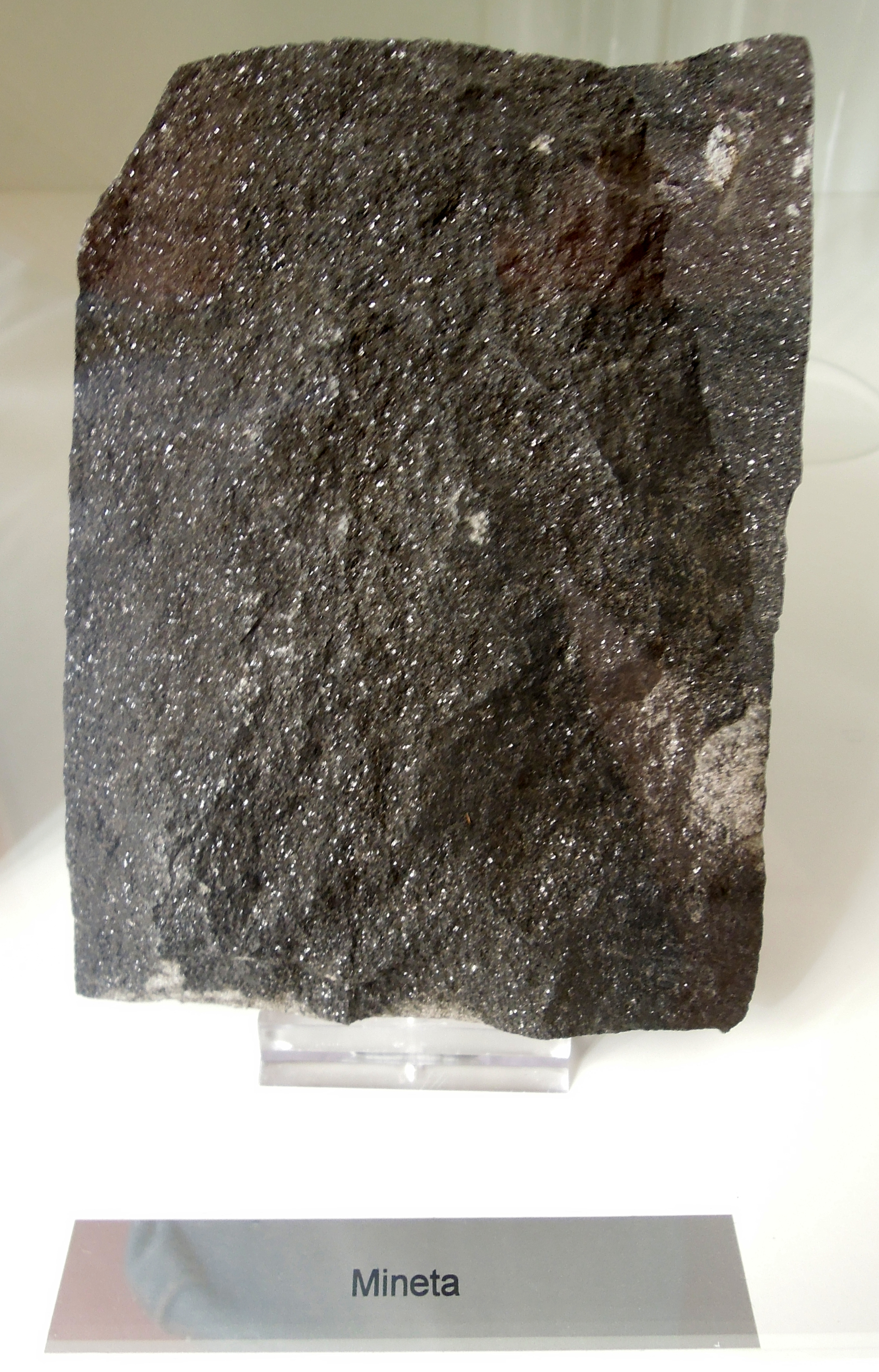 Rock sample of minette from the museum in Jáchymov in northwestern Bohemia. Minette is a lamprophyre with prevailing K-feldspars over plagioclase, common biotite and minor hornblende. Augite and olivine may be present.